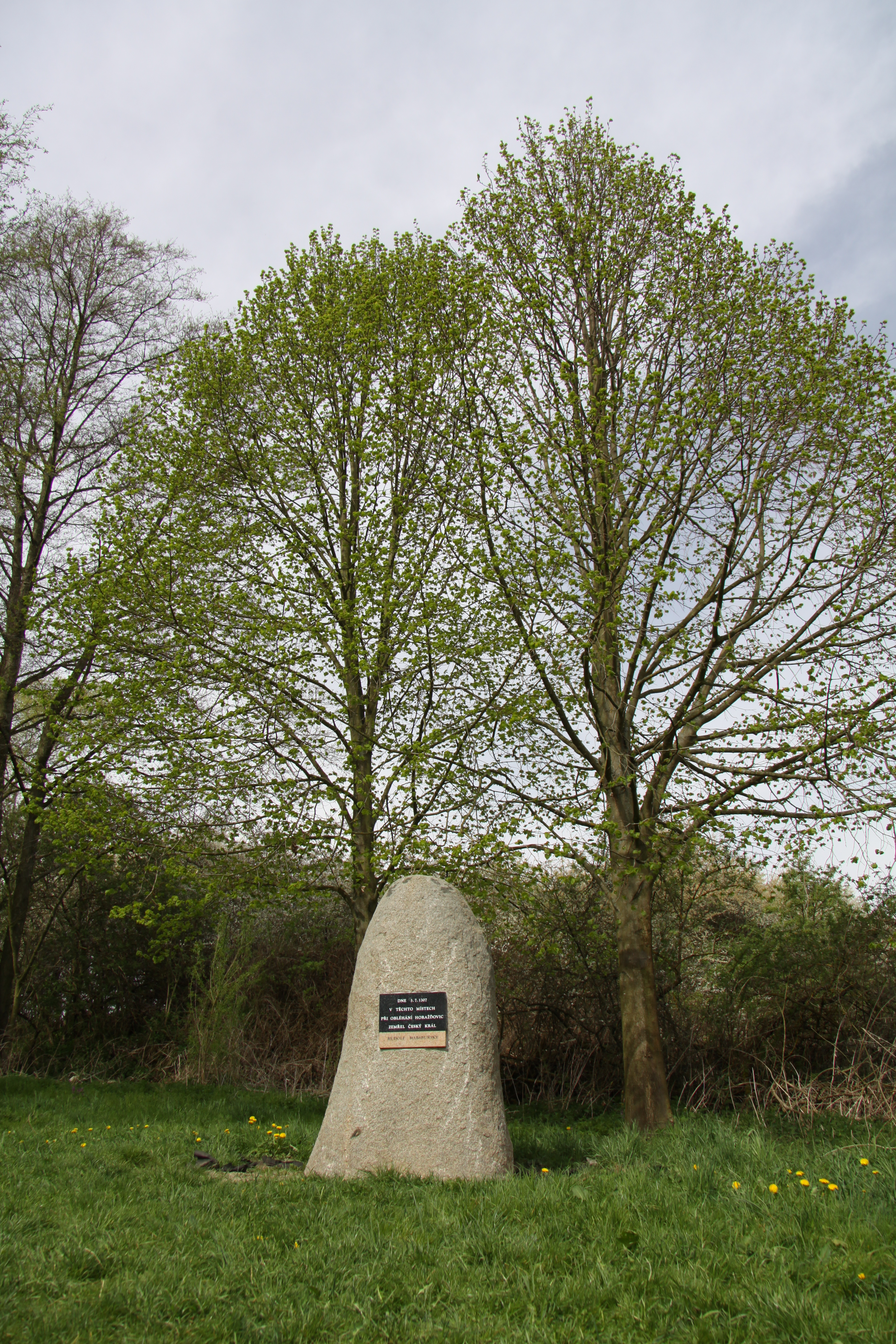 Memorial of the Rudolph I of Bohemia which died on this place. Photographed near Horažďovice, Czech Republic